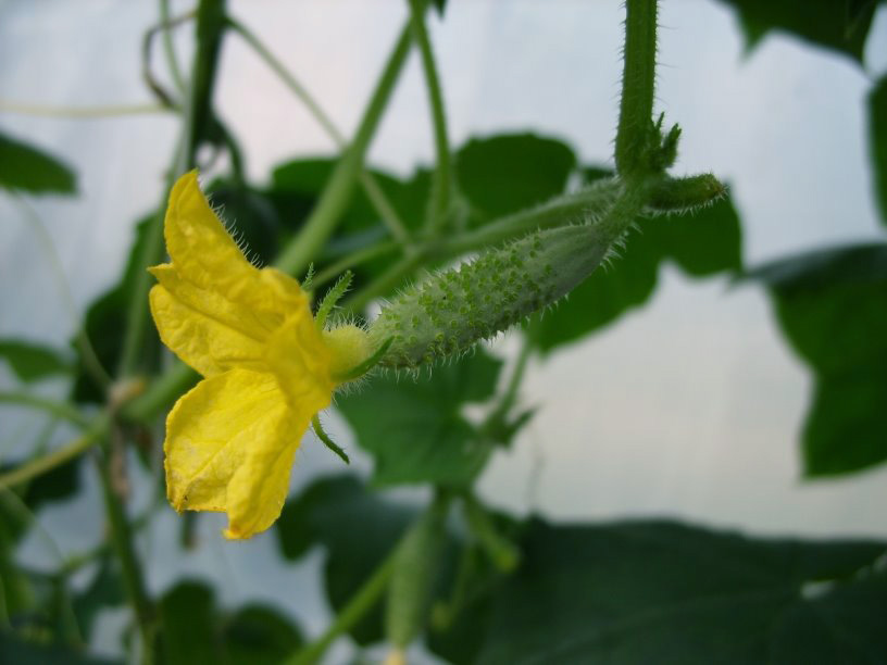 Small Cucumber